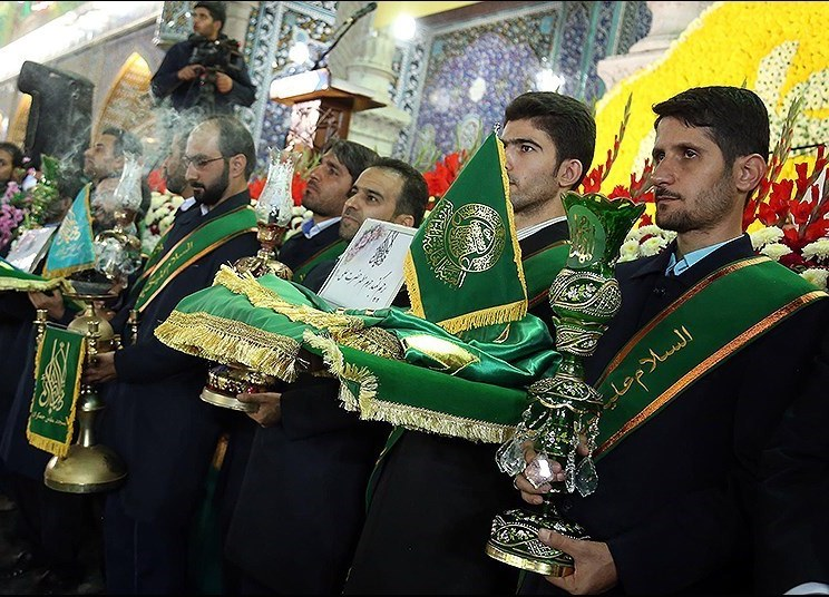 Eid al-Ghadeer celebration in Fatima Masumeh Shrine - Iran September 1395